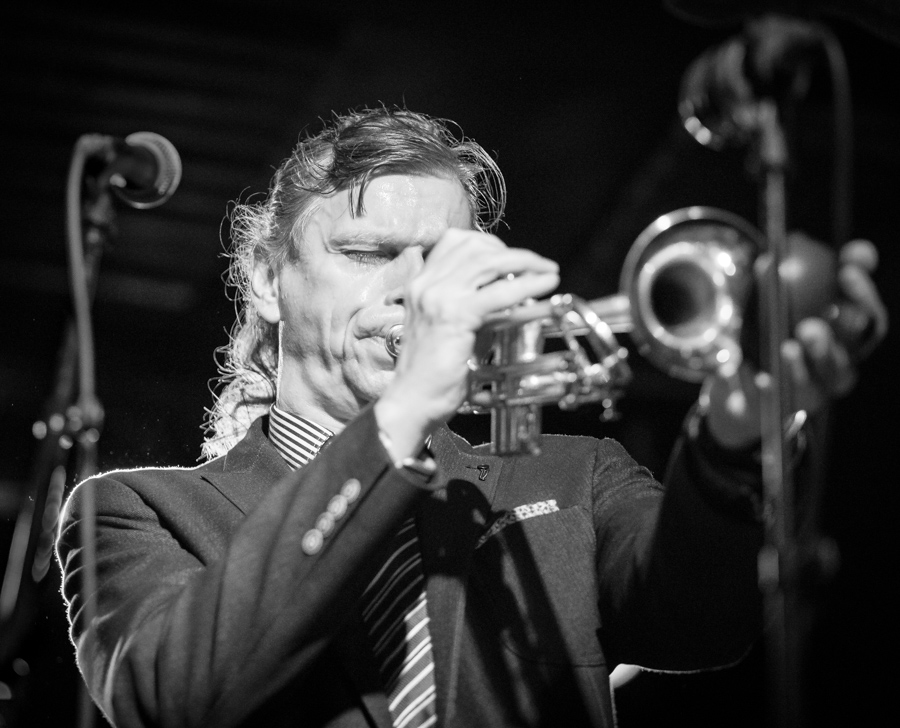 Norbert Susemihl at the stage at Gamla at Stortorvets Gjæstgiveri. The concert was part of Oslo Jazzfestival and took place on 18. August 2017. Lineup: Norbert Susemihl (trumpet), Carl Petter Opsahl (clarinet), Morten Gunnar Larsen (piano), Hans Ingelstam (trombone), Jens Kristian Andersen (double bass) and Torstein Ellingsen (drums).